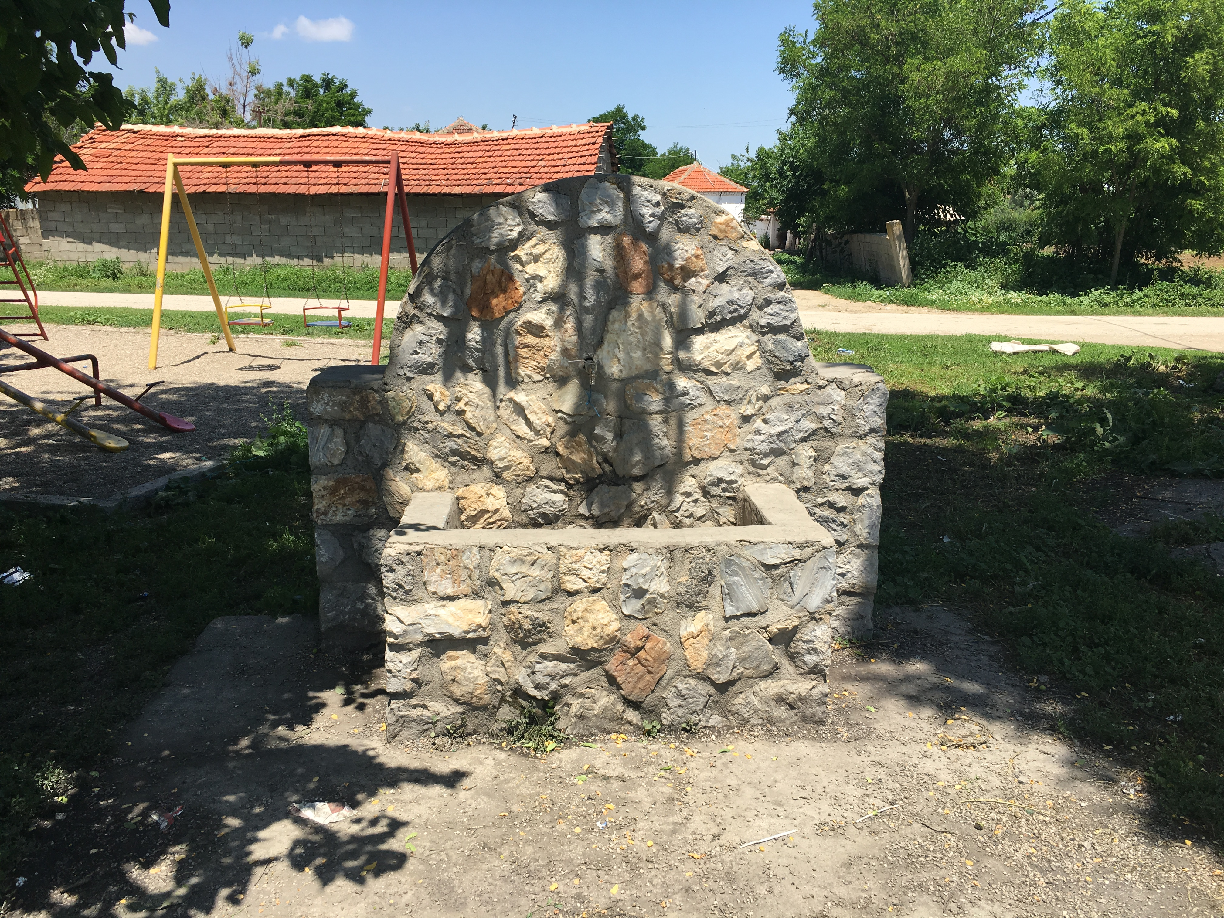 A pump in the village of Dolna Čarlija